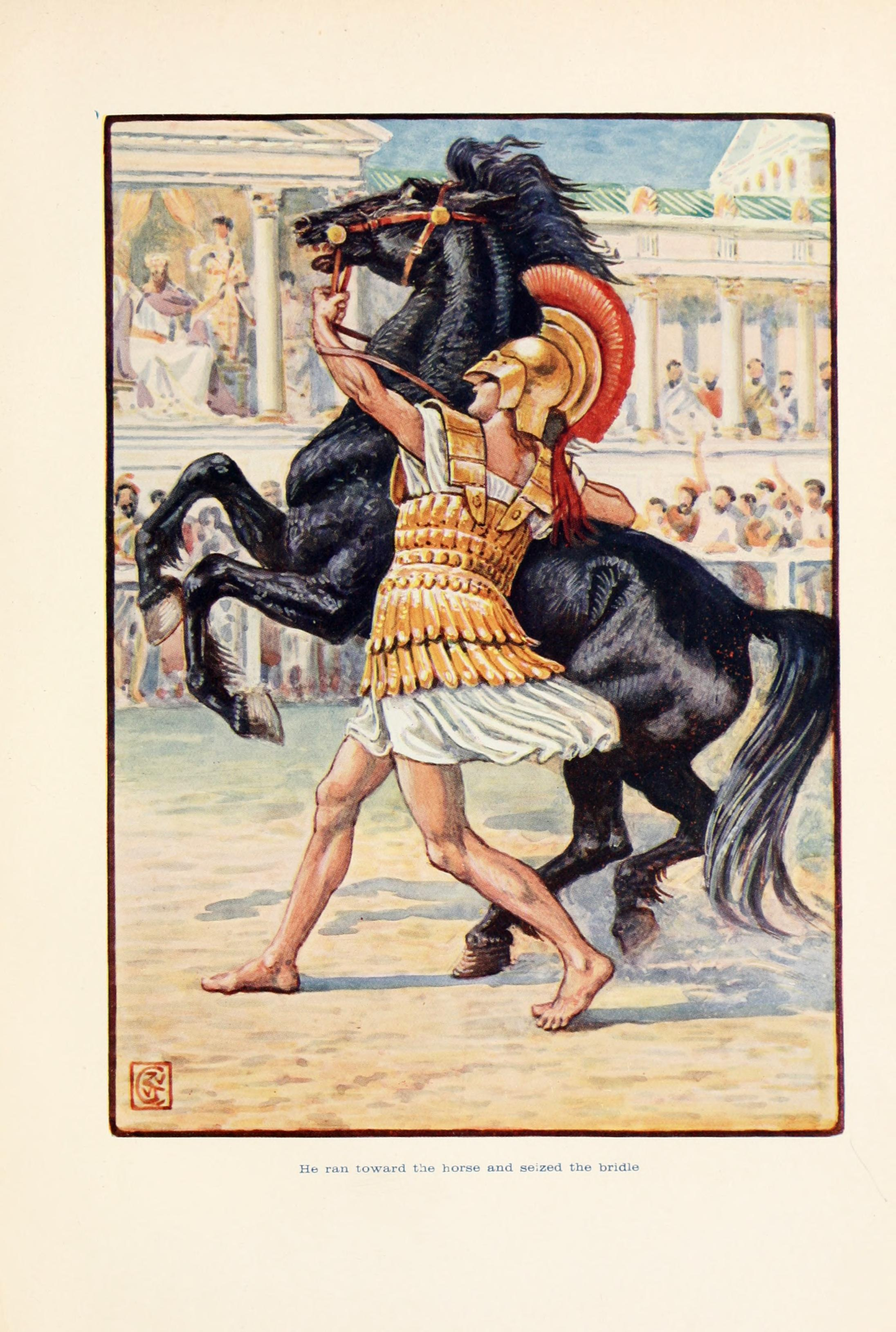 These stories from the history of ancient Greece begin with myths and legends of gods and heroes and end with the conquests of Alexander the Great. The book is accessible and well organized, but it is considerably more detailed than some other introductory texts. It covers Greek history from the age of Mythology to the rise of Alexander, but because of its length we do not recommend it for 5th grade or younger. It is an excellent reference, thoroughly engaging, and a good candidate for a somewhat older student's first foray into Greek history.